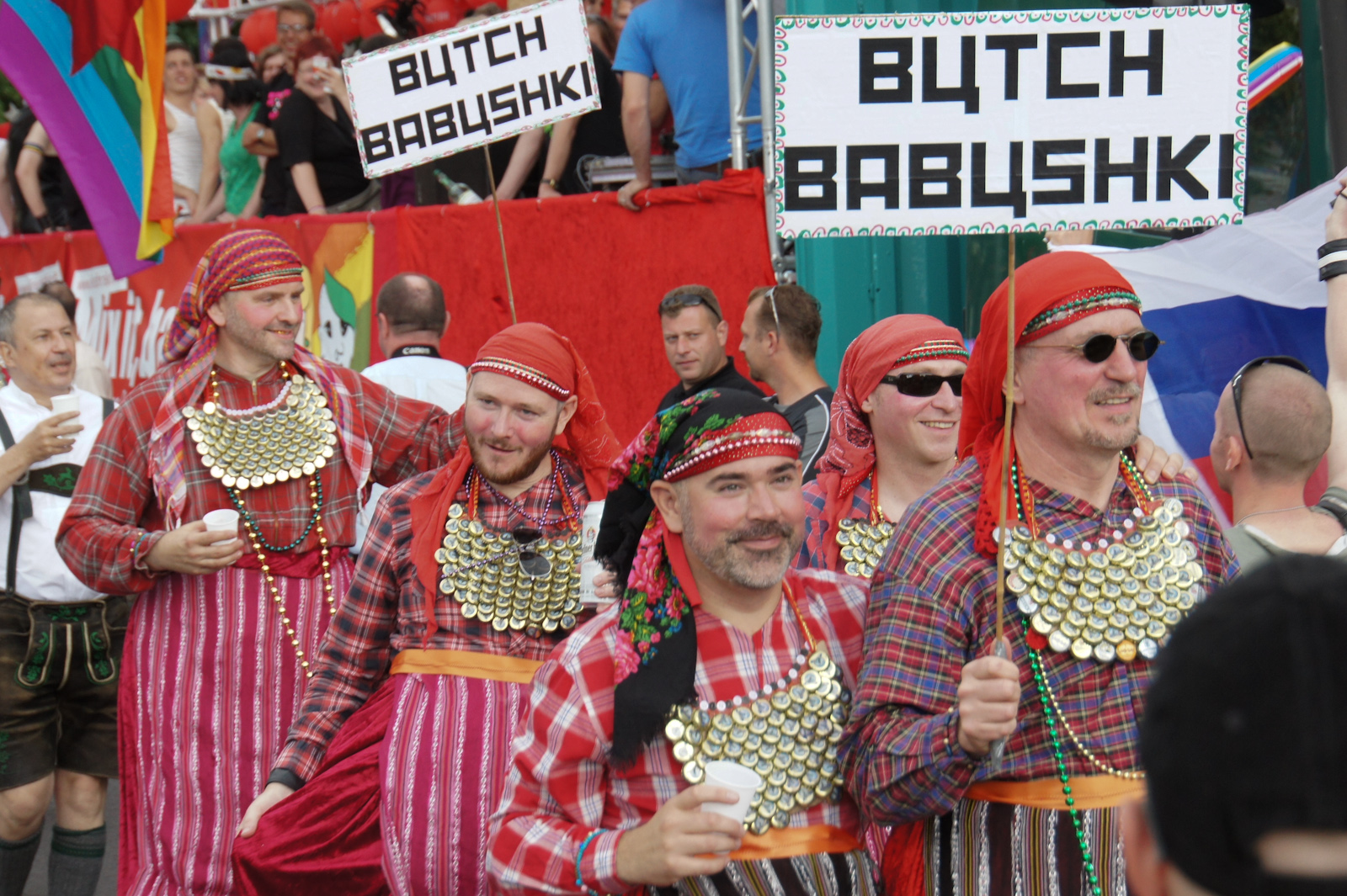 Berlin CSD 2012